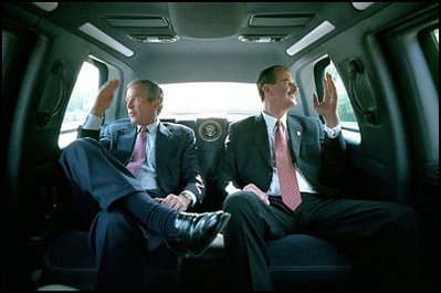 En route to speak at University of Toledo's Savage Hall, Presidents Bush and Fox wave to onlookers as they tour through the streets.